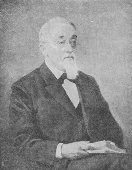 Yrjö Koskinen, Finnish historian, writer and politician